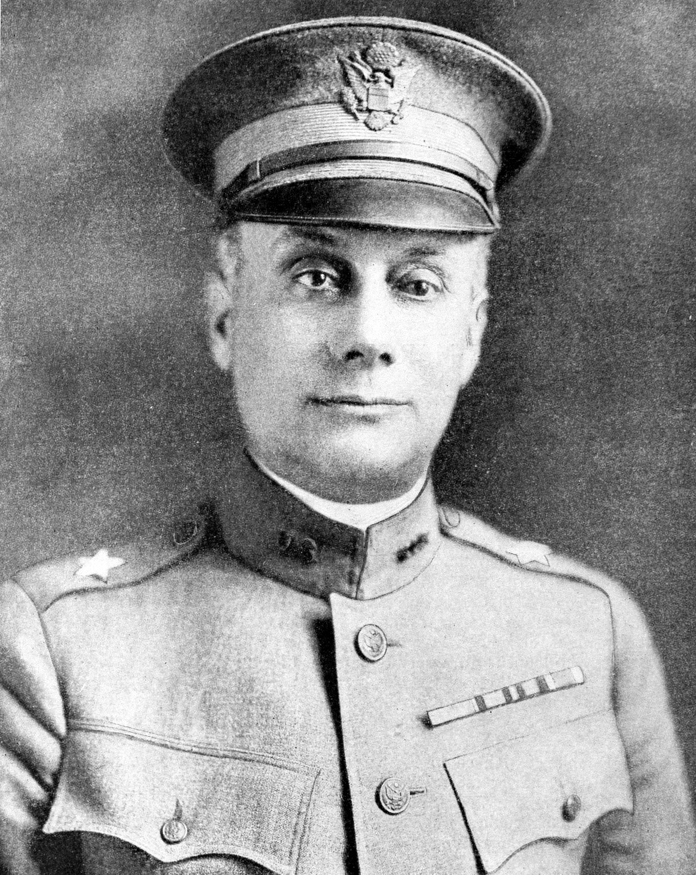 William Mason Wright (US Army Lieutenant General)